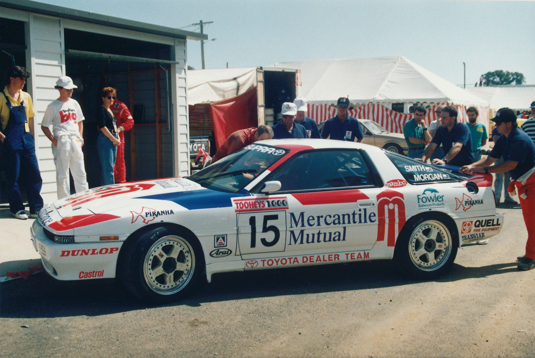 This image is a scan of a 35mm print taken at Bathurst in 1991